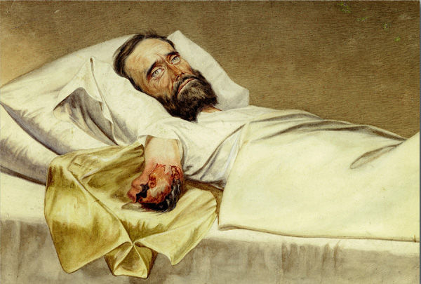 Private Milton E. Wallen of Company C, 1st Kentucky Cavalry, wounded by a Minié ball while in prison at Richmond, July 4, 1863. He was being treated for gangrene in August 1863 when Edward Stauch traveled from Washington to make this sketch. Wallen survived the infection and was furloughed from the hospital in October 1863.